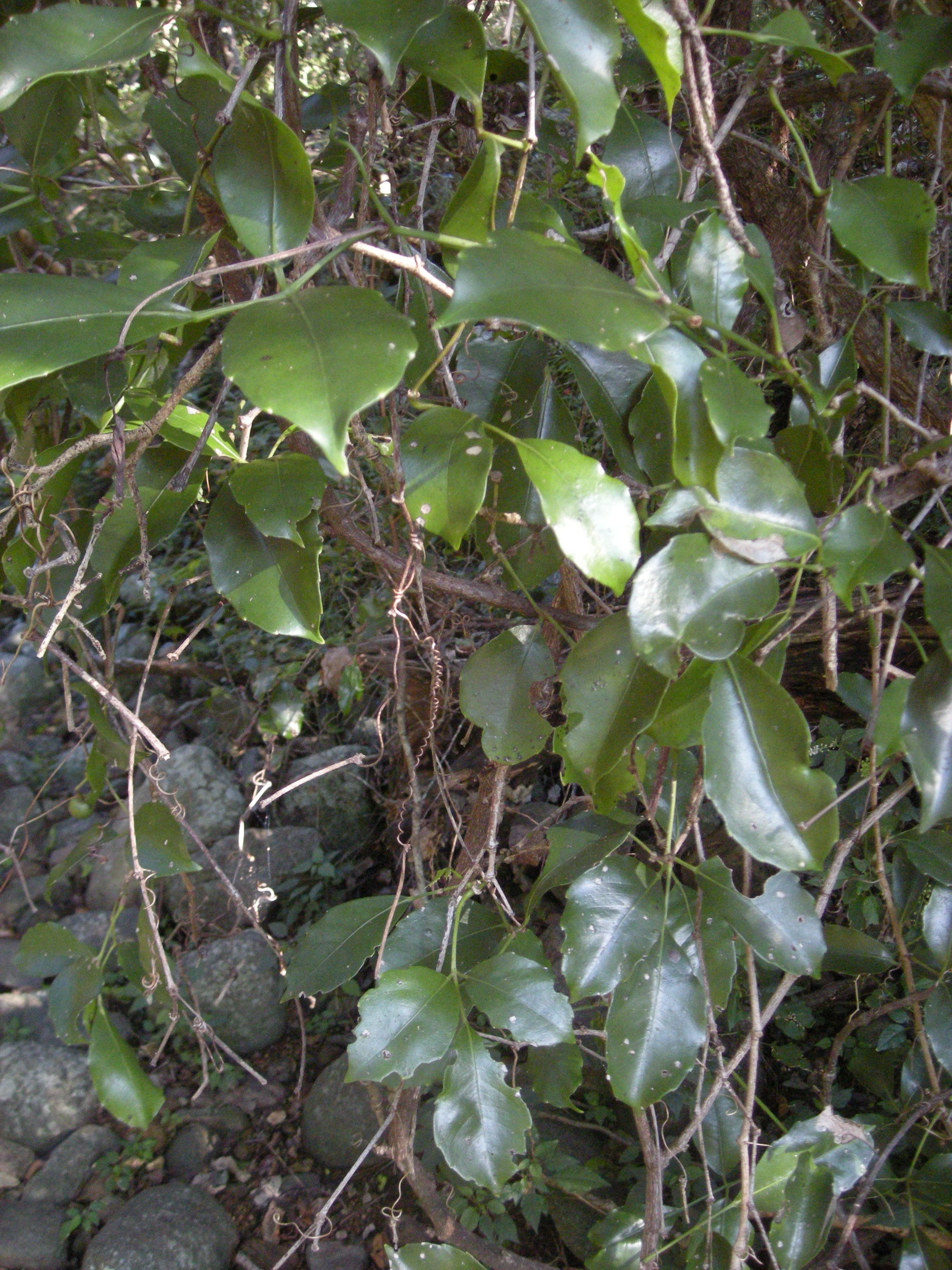 Tetrastigma nitens